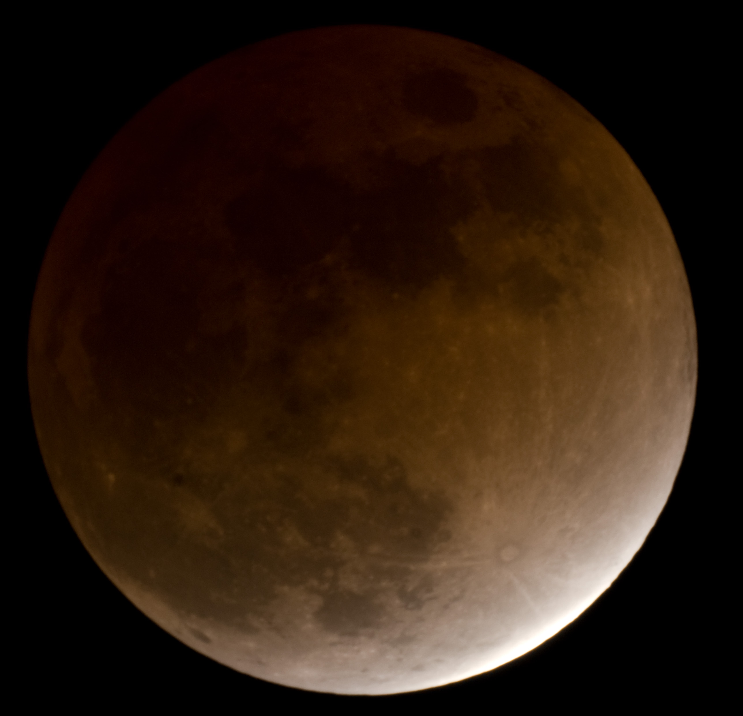 taken in Wellesley Hills, MA using a Skyview Pro 127mm telescope and a Nikon D200 SLR